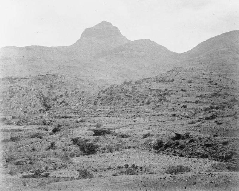 The Abyssinian Expedition 1868 Alagi Amba, near Attala. Photograph taken by 10th Company, RE.